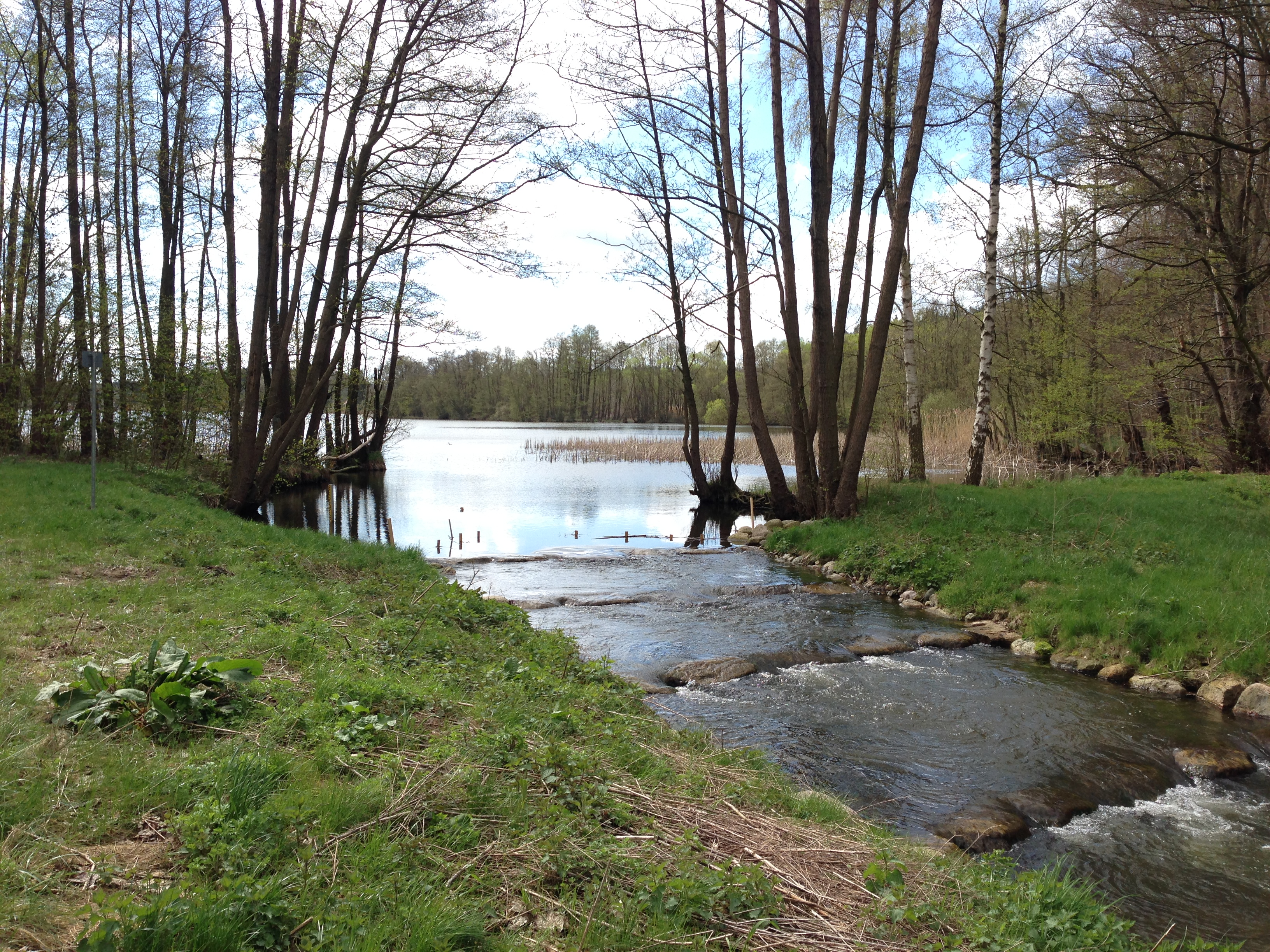 Lostener See, Wallensteingraben with fish ladder near Losten, district Nordwestmecklenburg, Mecklenburg-Vorpommern, Germany